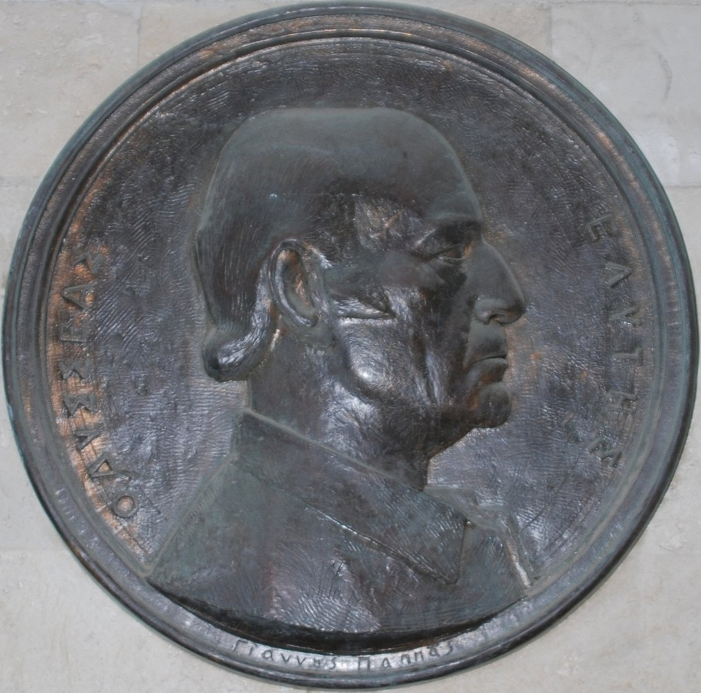 Odysseas Elytis (1911-1996), detail of file "Elytis, Odysseas (1911-1996).jpg"